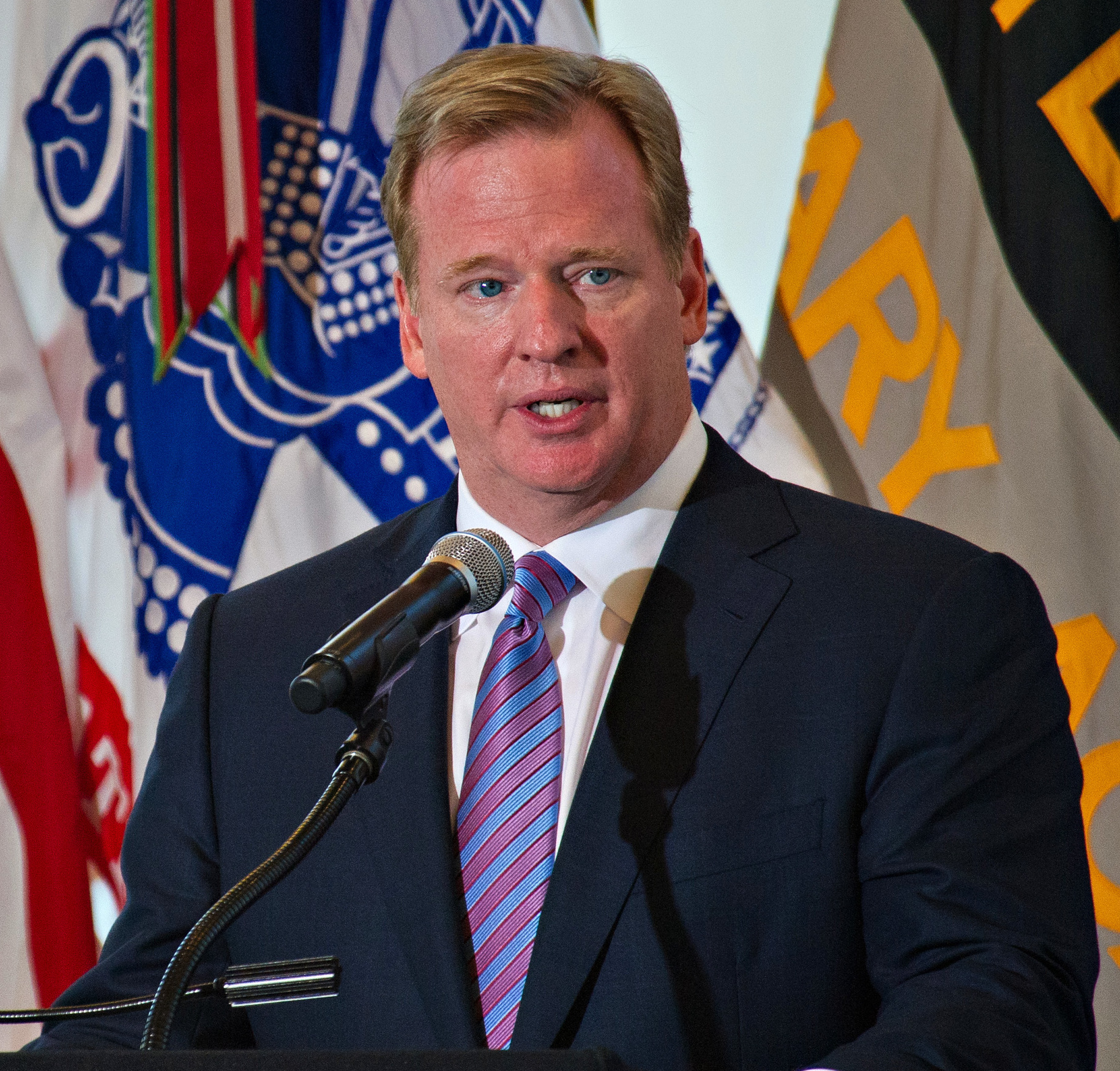 National Football League (NFL) Commissioner Roger Goodell delivers remarks during an event at the U.S. Military Academy at West Point, N.Y., launching an initiative between the Army and the NFL to work to raise awareness about traumatic brain injury Aug. 30, 2012. Goodell and U.S. Army Gen. Raymond T. Odierno, the chief of staff of the Army, jointly signed a letter formalizing the initiative during the event.